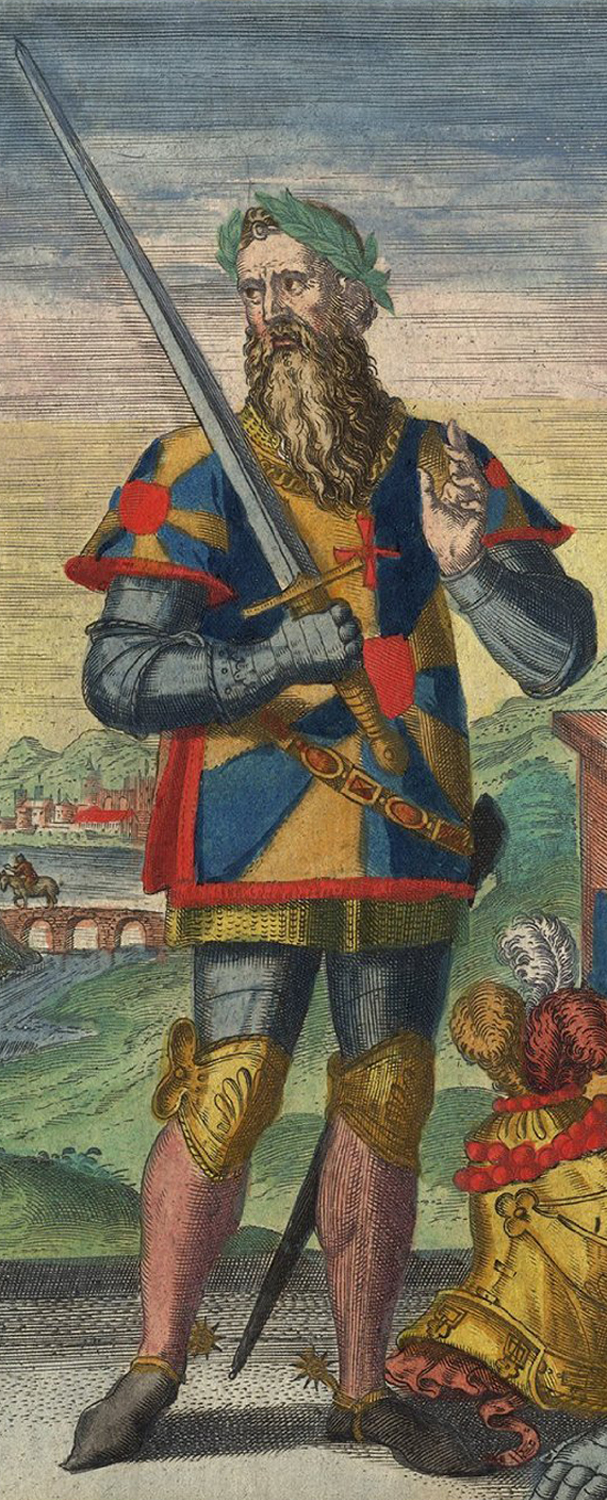 Baldwin IV of Flanders